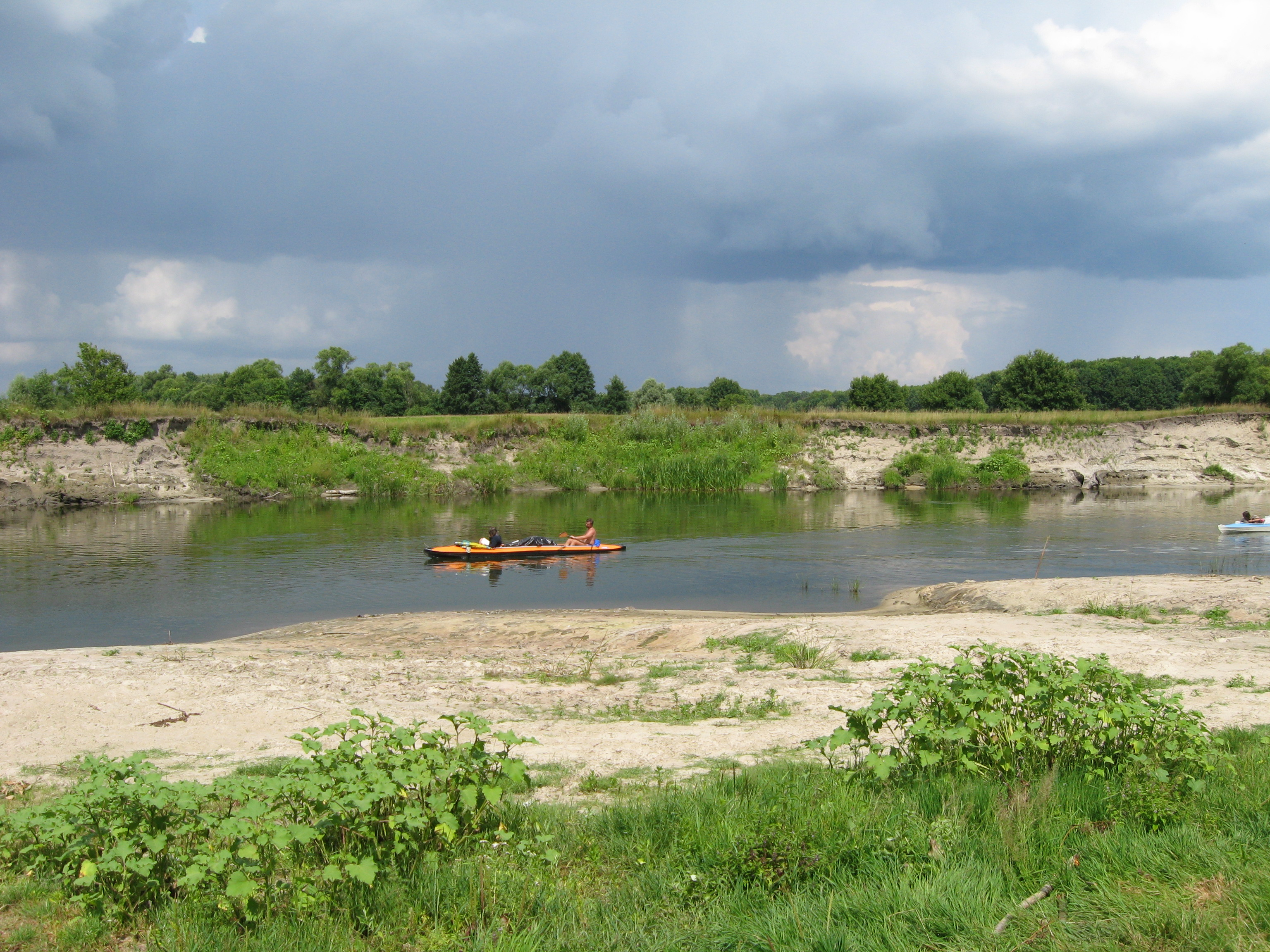 Seym River near Dolinske, Chernihiv Oblast